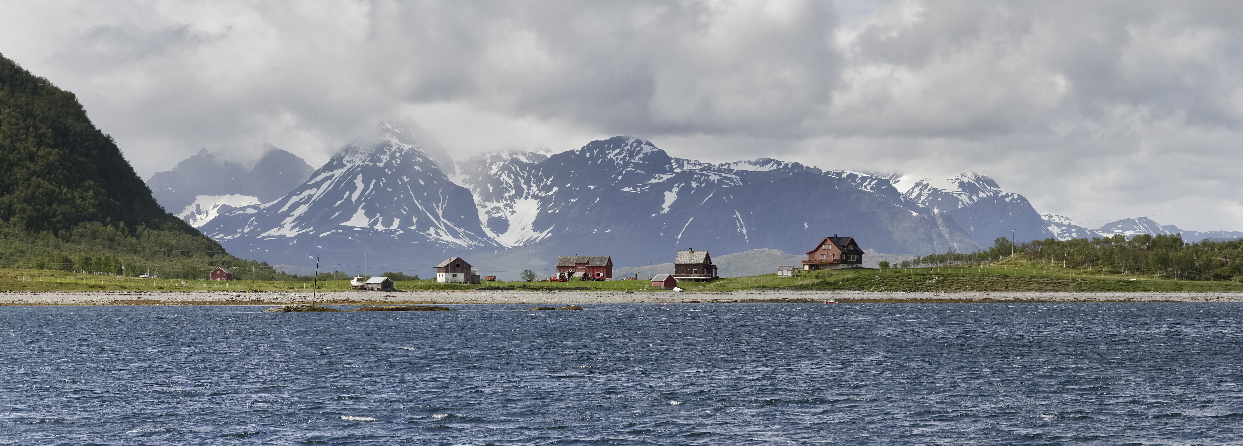 Houses of Sørneset in Nordreisa as seen over Straumfjorden in 2012 June. The mountains in the background belong to Kågen island.